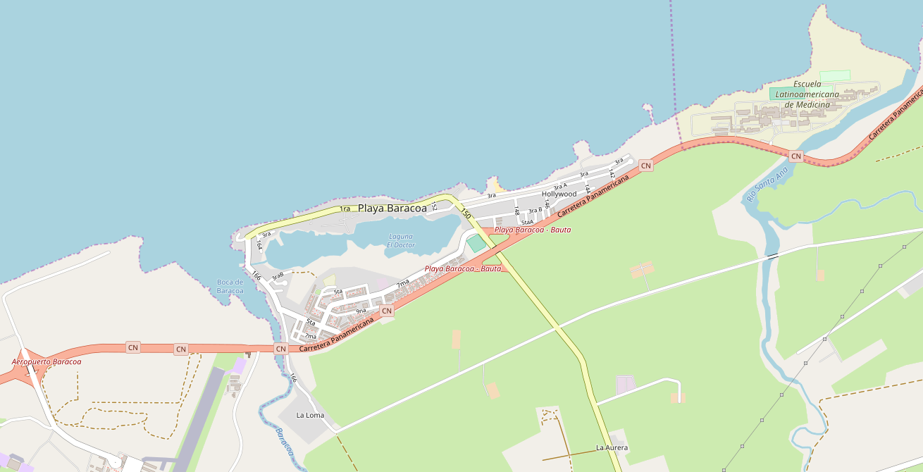 This map may be incomplete, and may contain errors. Don't rely solely on it for navigation.